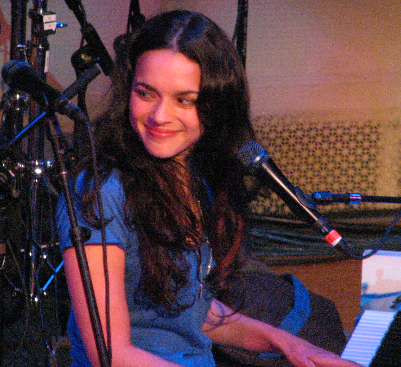 Norah Jones at Bright Eyes at Town Hall 29 May 2007